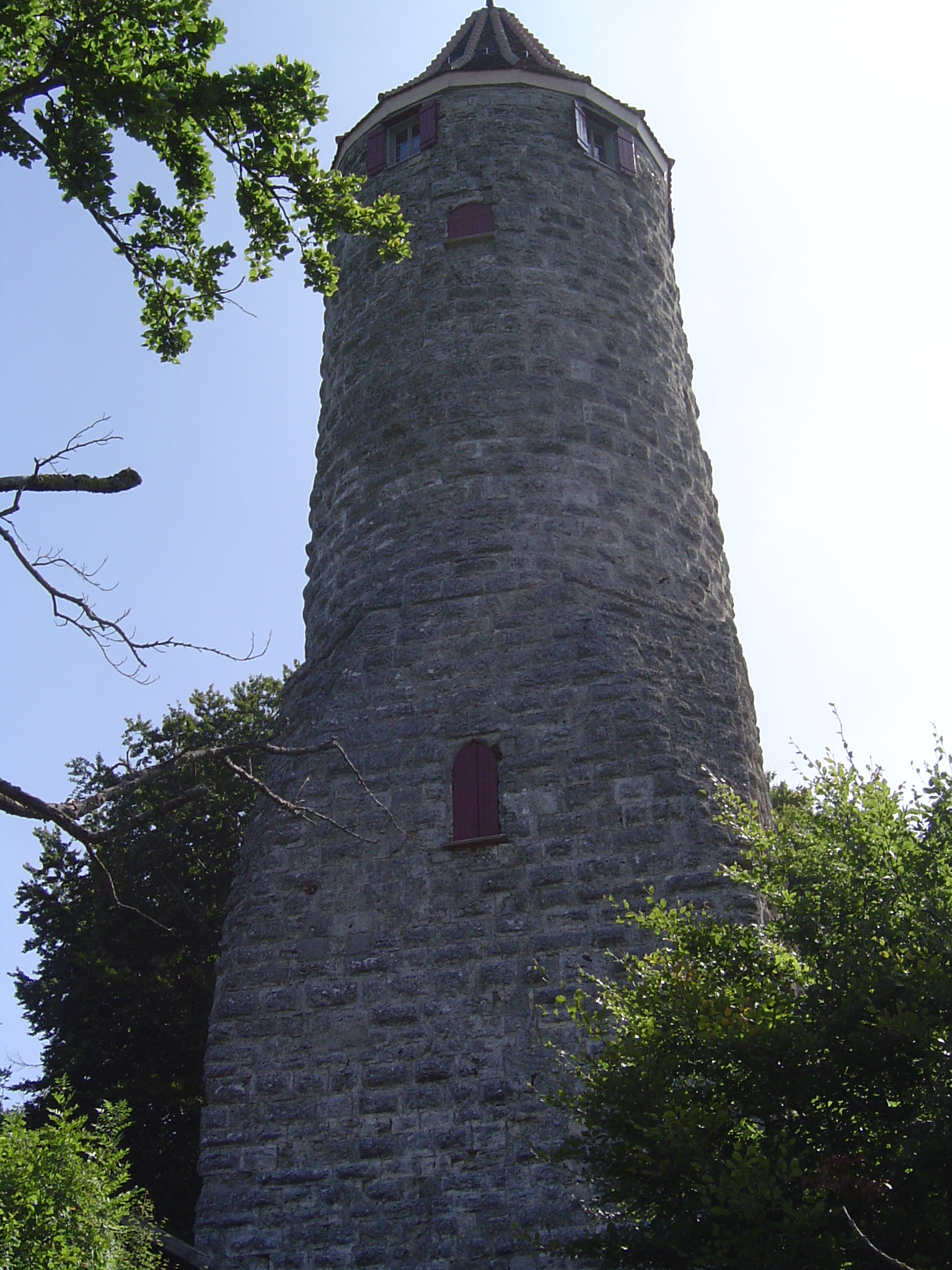 Ödenturm